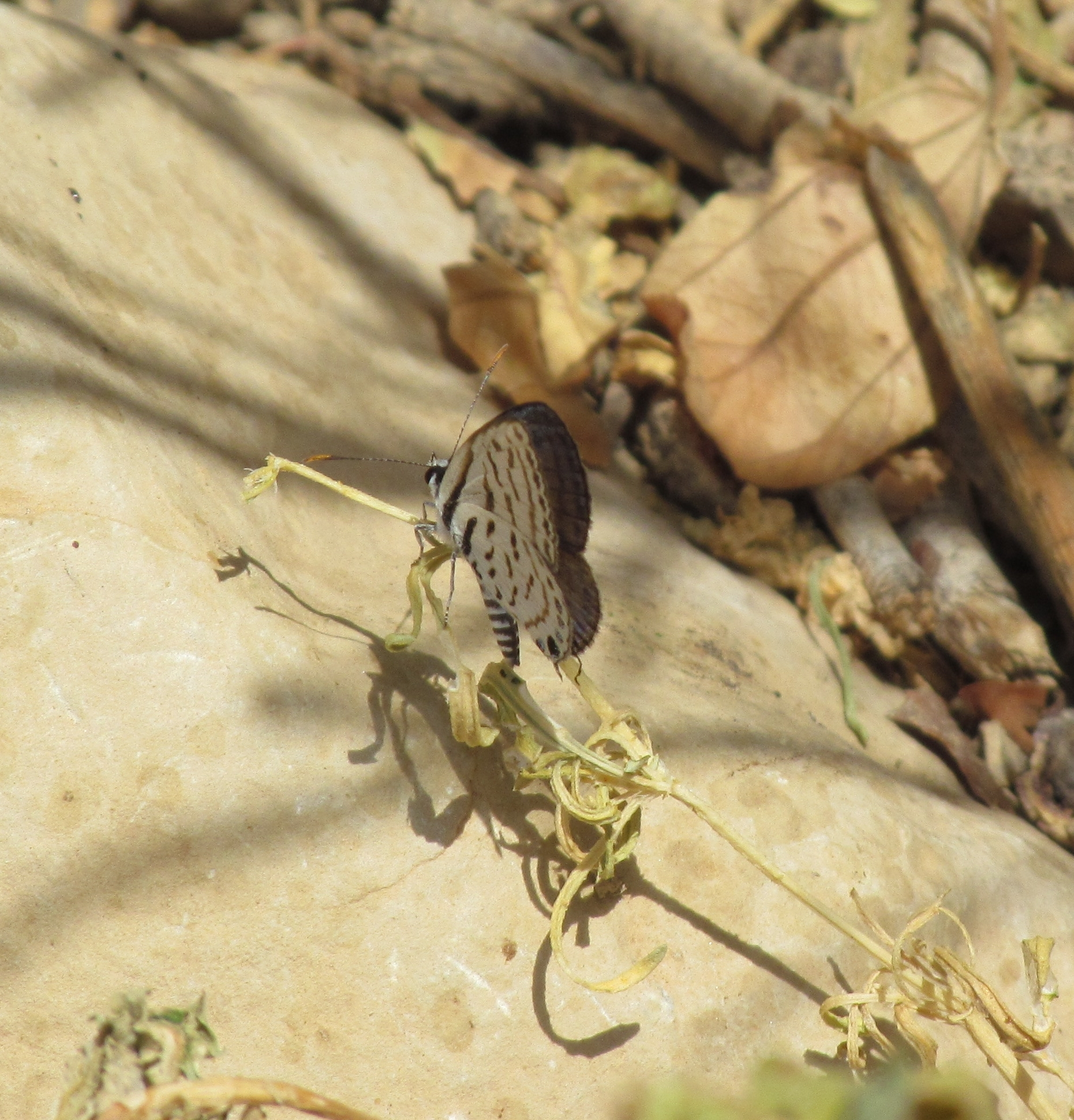 כחליל השיזף - נחל מזין ליד עץ השיזף הגדול, 3 במאי 2014